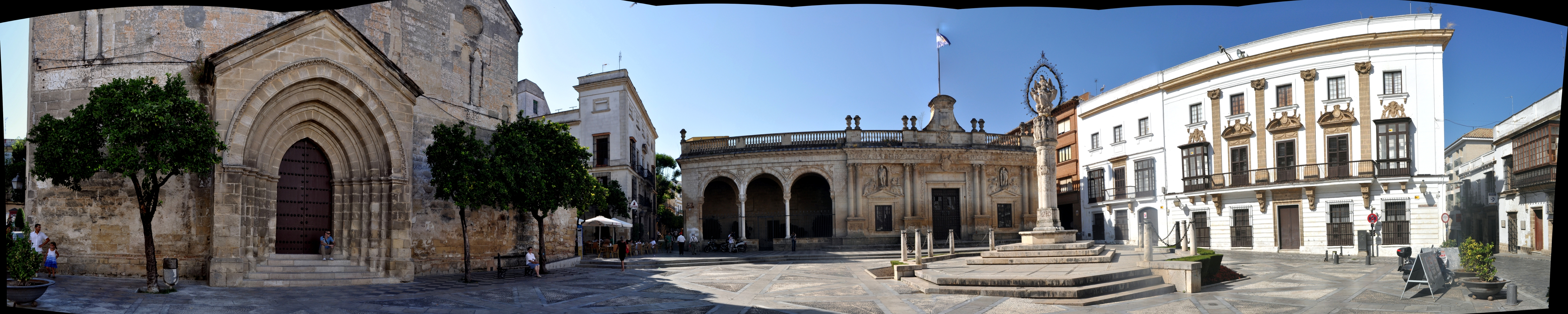 Asuncion Square Panoramic, Jerez